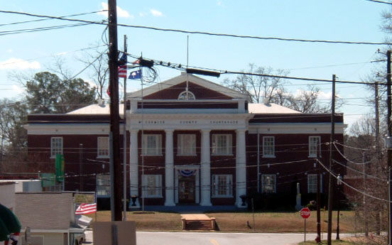 McCormick County courthouse, McCormick, South Carolina, USA